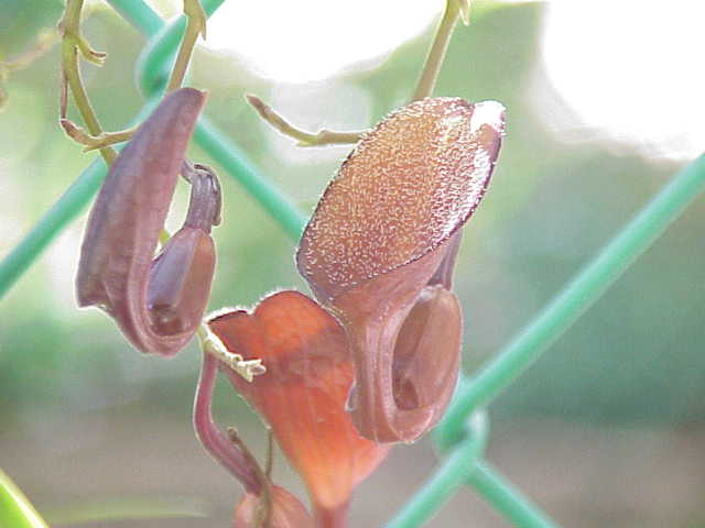 Species: Aristolochia maxima Family: Aristolochiaceae Image No. 3